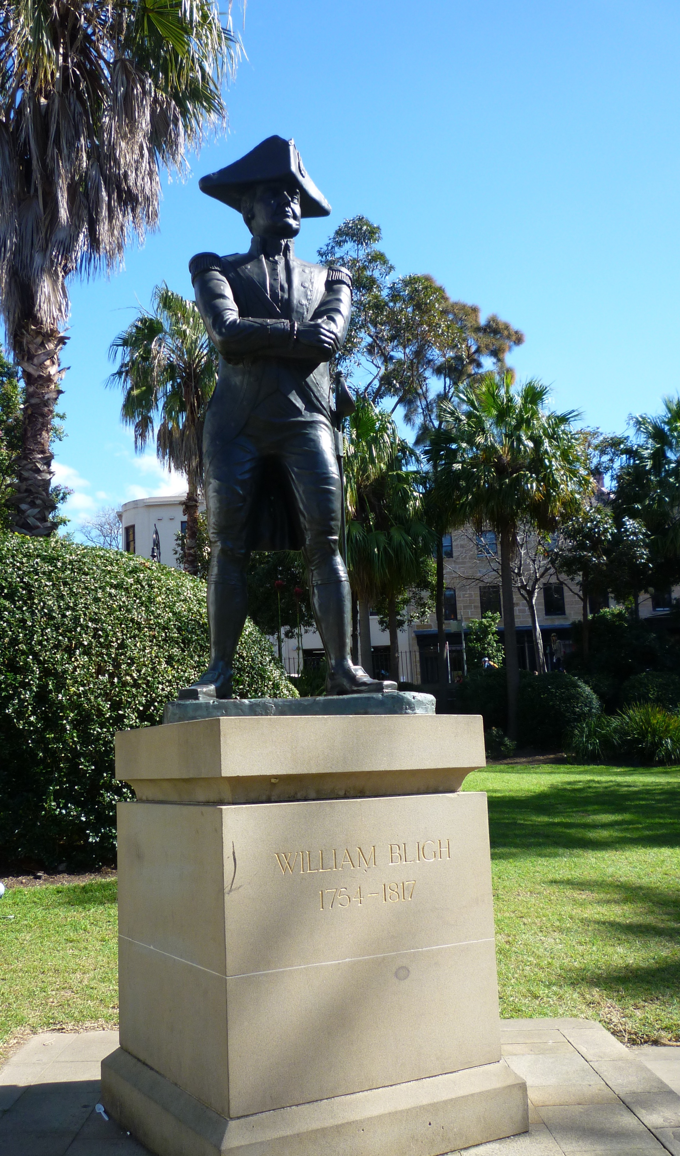 Sculpture by Marc Clark in Sydney